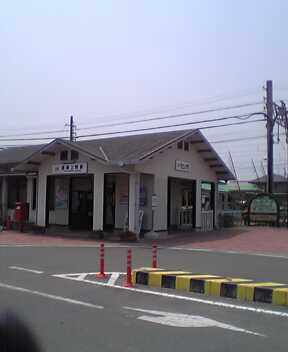 Toyotsu-Ueno station located in Mie pref., Japan. 豊津上野駅